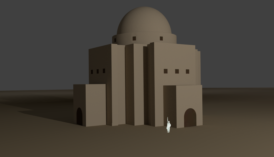 Reconstruction of the 9th century church of Dongola. Based on Wlodzimierz Godlewski (2013): "Dongola - ancient Tungul", p. 11.